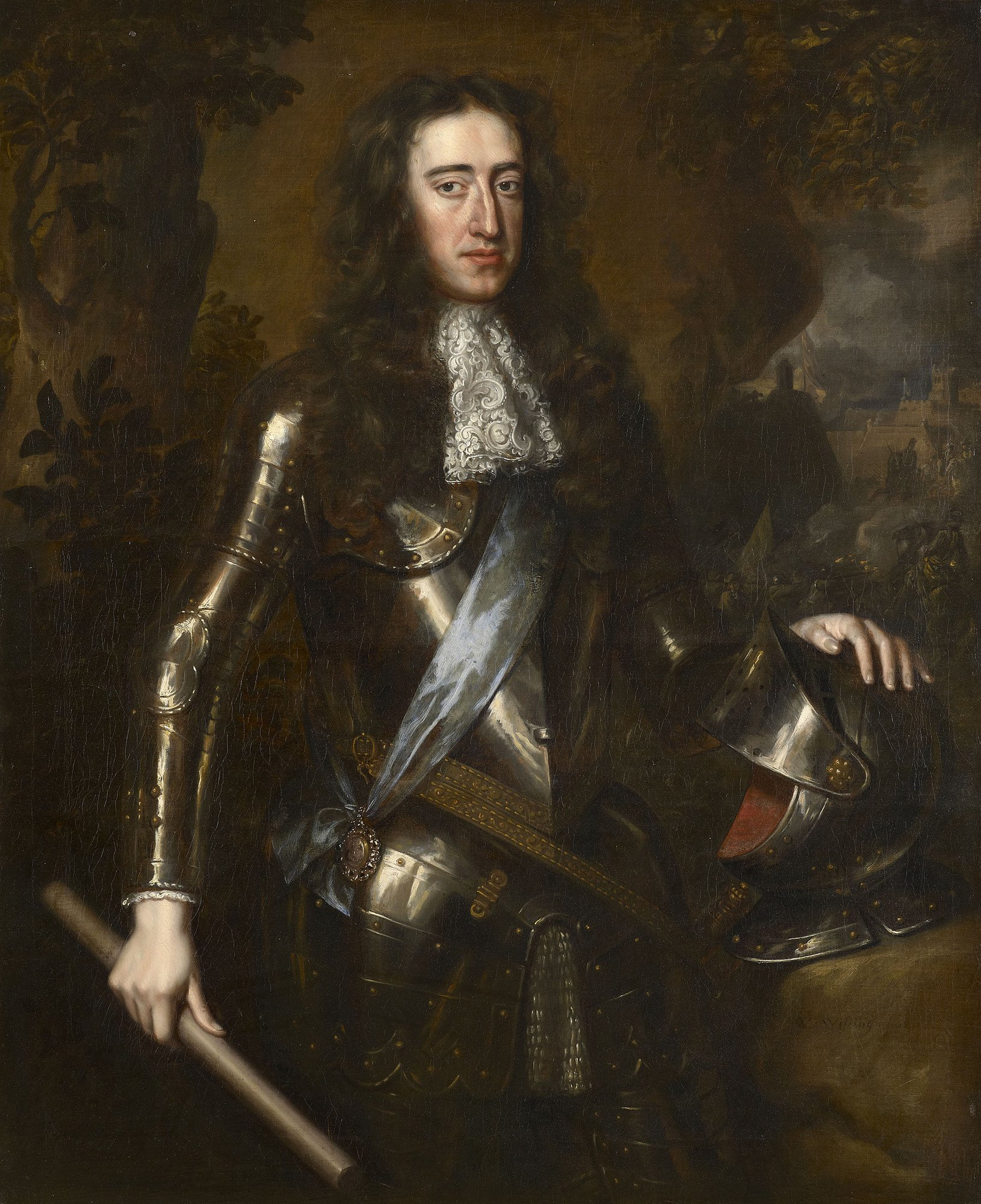 Portrait of William III of England, when Prince of Orange